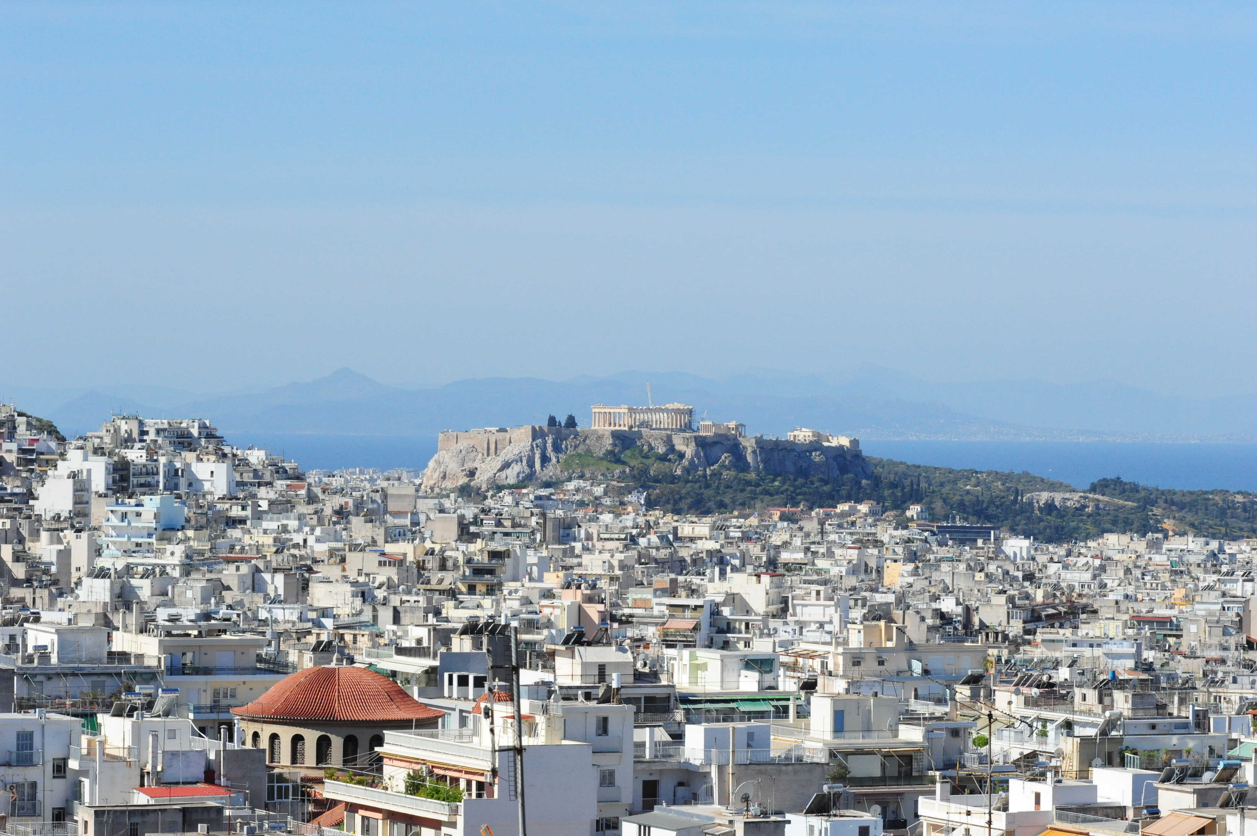 View of the Acropolis Surrounded by Modern Athens